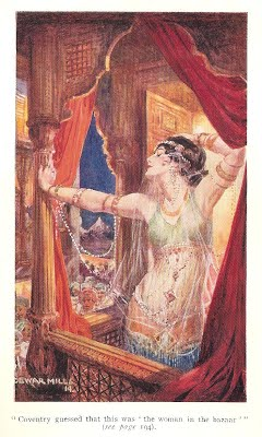 Woman in bazaar by Alice Perrin illustrated by J Dewar Mills 1914